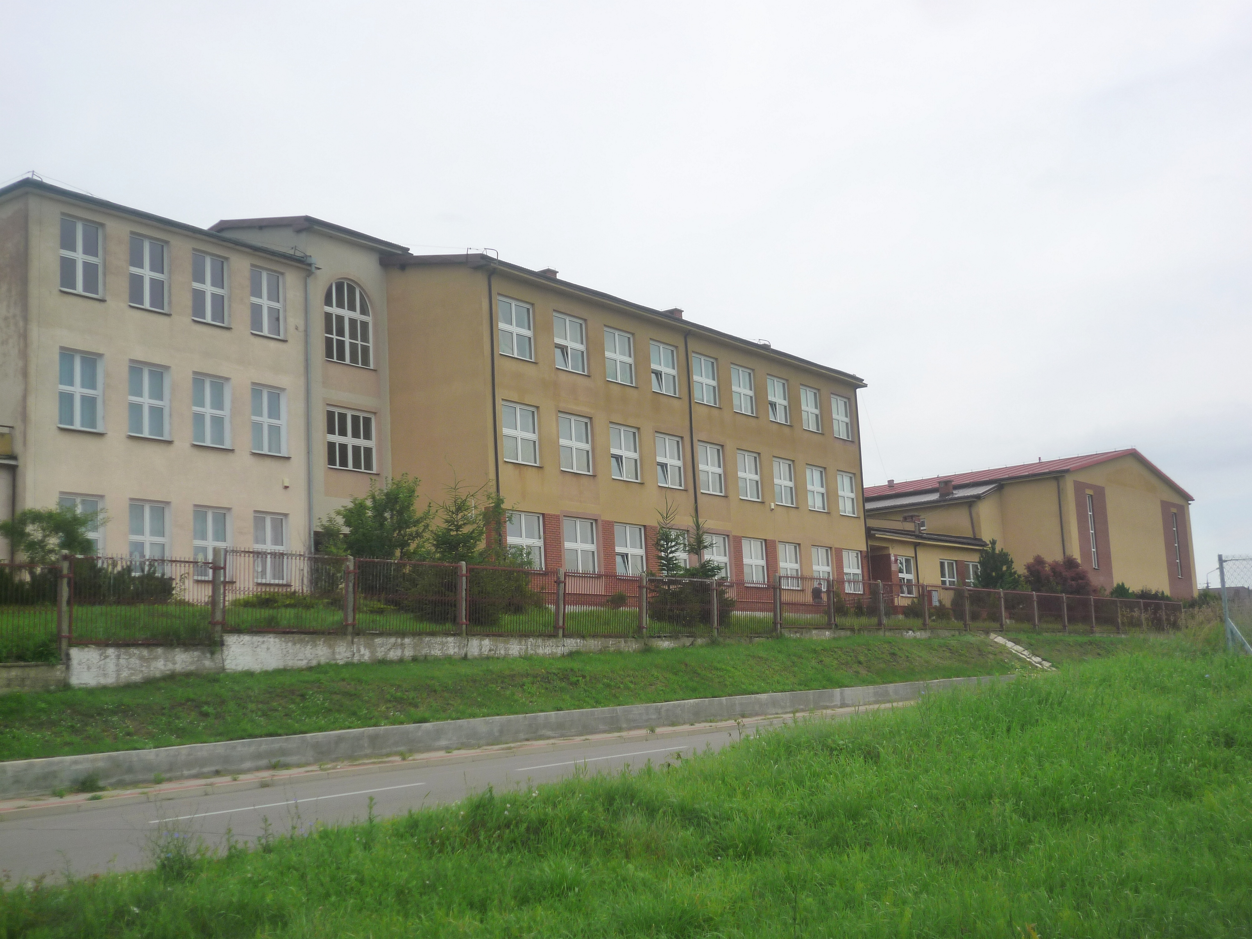 The school in Kulesze Kościelne, Poland